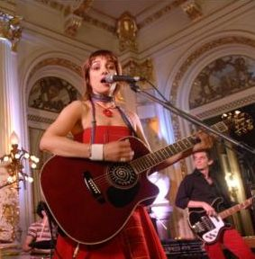 Argentine pop/rock singer and composer Hilda Lizarazu, performing at the Salón Blanco of the Casa Rosada (government house).